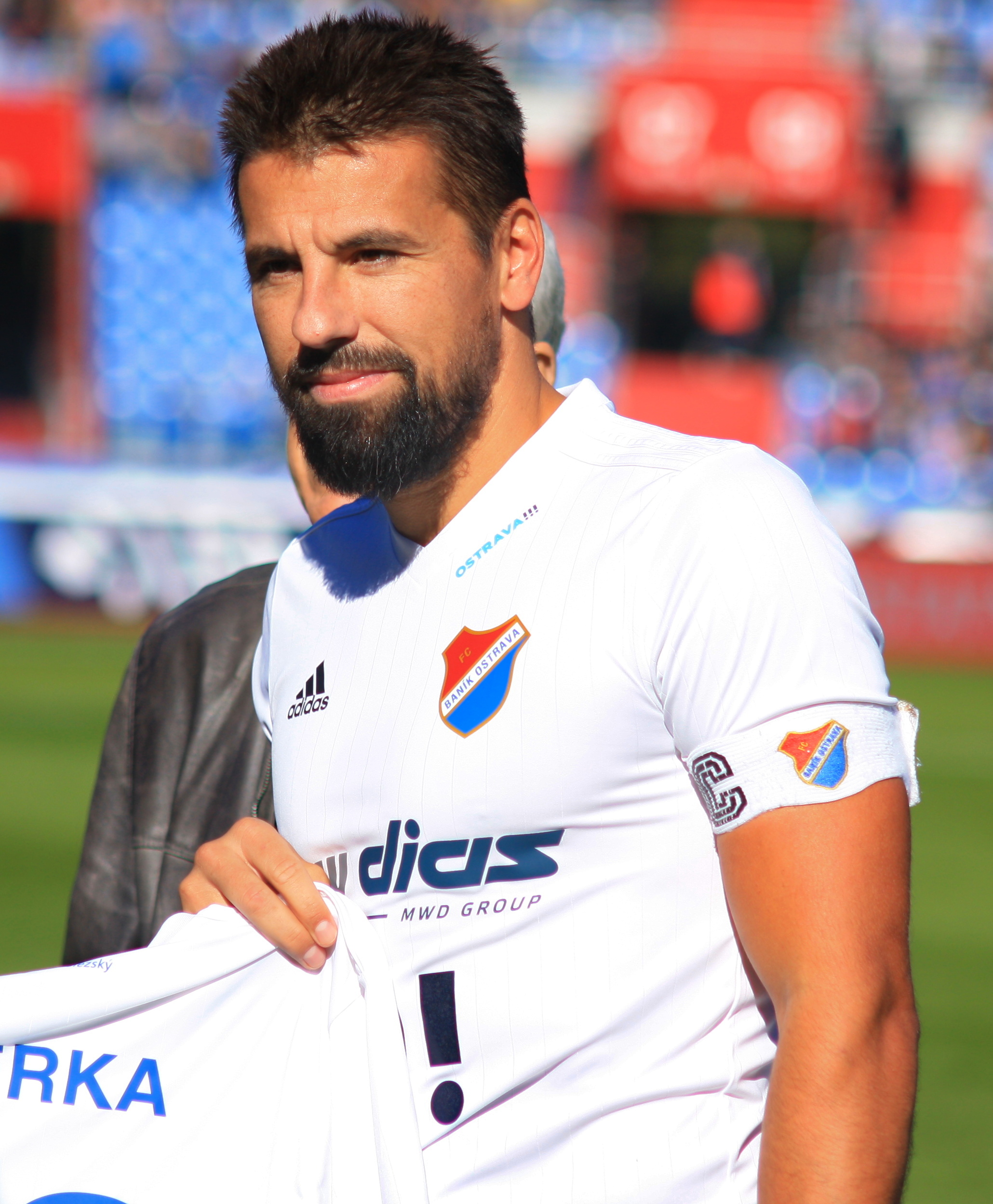 Milan Baroš At Czech First League (Fortuna Liga) match FC Baník Ostrava-SK Slavia Praha played on 30. 9. 2018